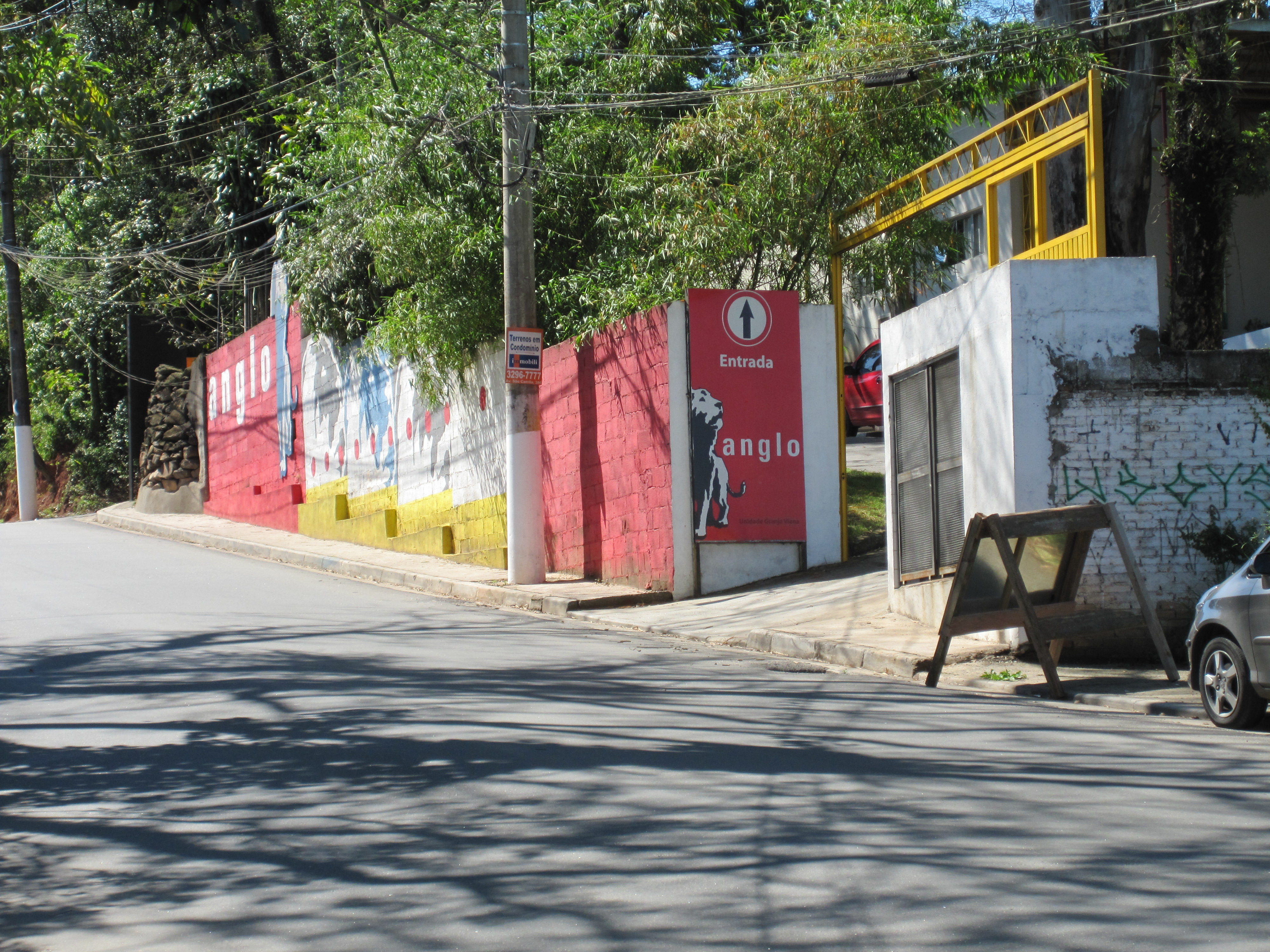 Entrance of Colégio Anglo Leonardo da Vinci in Granja Viana.